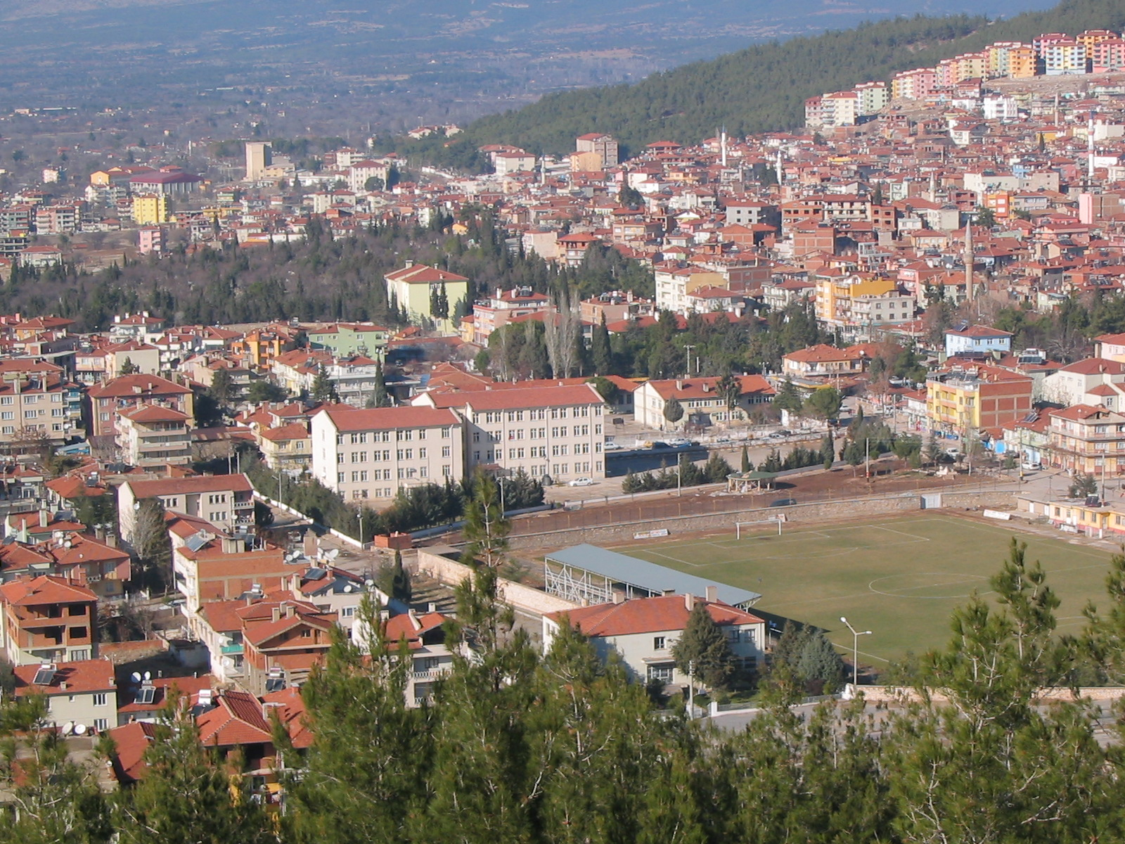 General view of Tavas.